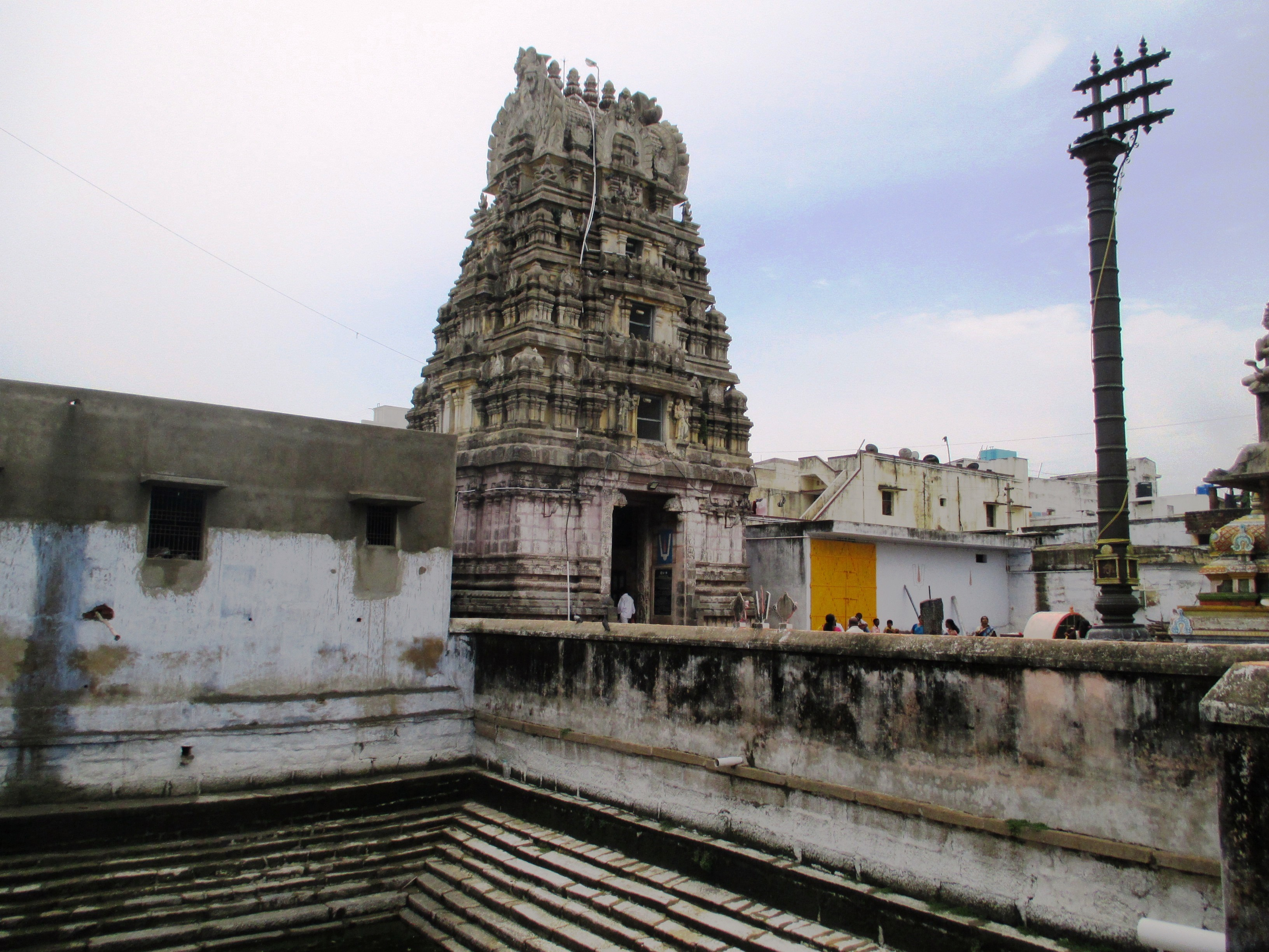 Pandavathoothartemple